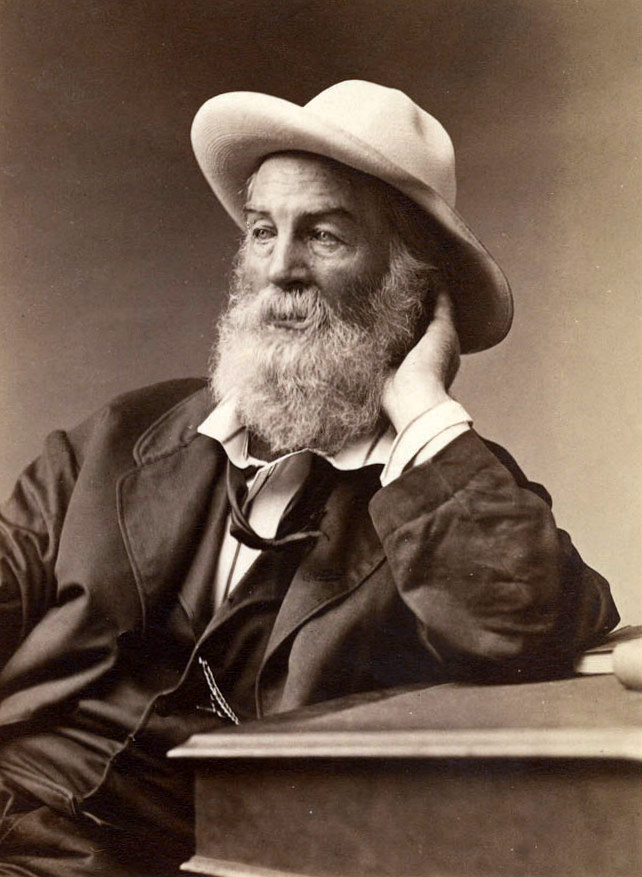 Albumen print of a photograph of American poet Walt Whitman, seen seated and wearing a hat, leaning on a table. Photo taken in Brooklyn, New York in September 1872.